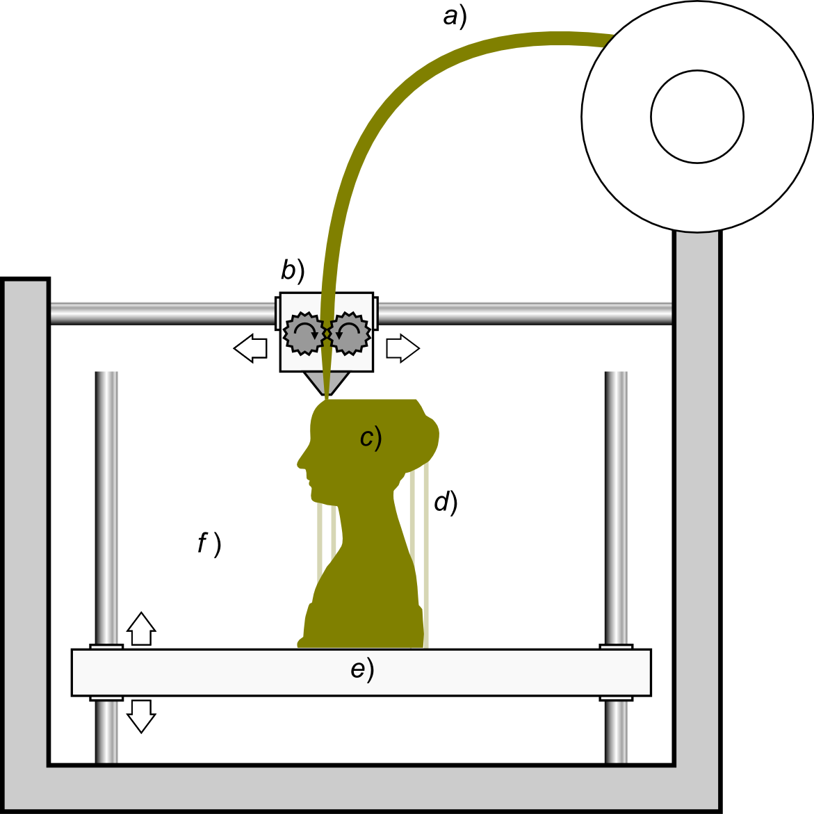 Schematic representation of the 3D printing technique known as Fused Filament Fabrication; a filament a) of plastic material is feeded through a heated moving head b) that melts and extrudes it depositing it, layer after layer, in the desired shape c). A moving platform e) lowers after each layer is deposited. For this kind of technology additional vertical support structures d) are needed to sustain overhanging parts.